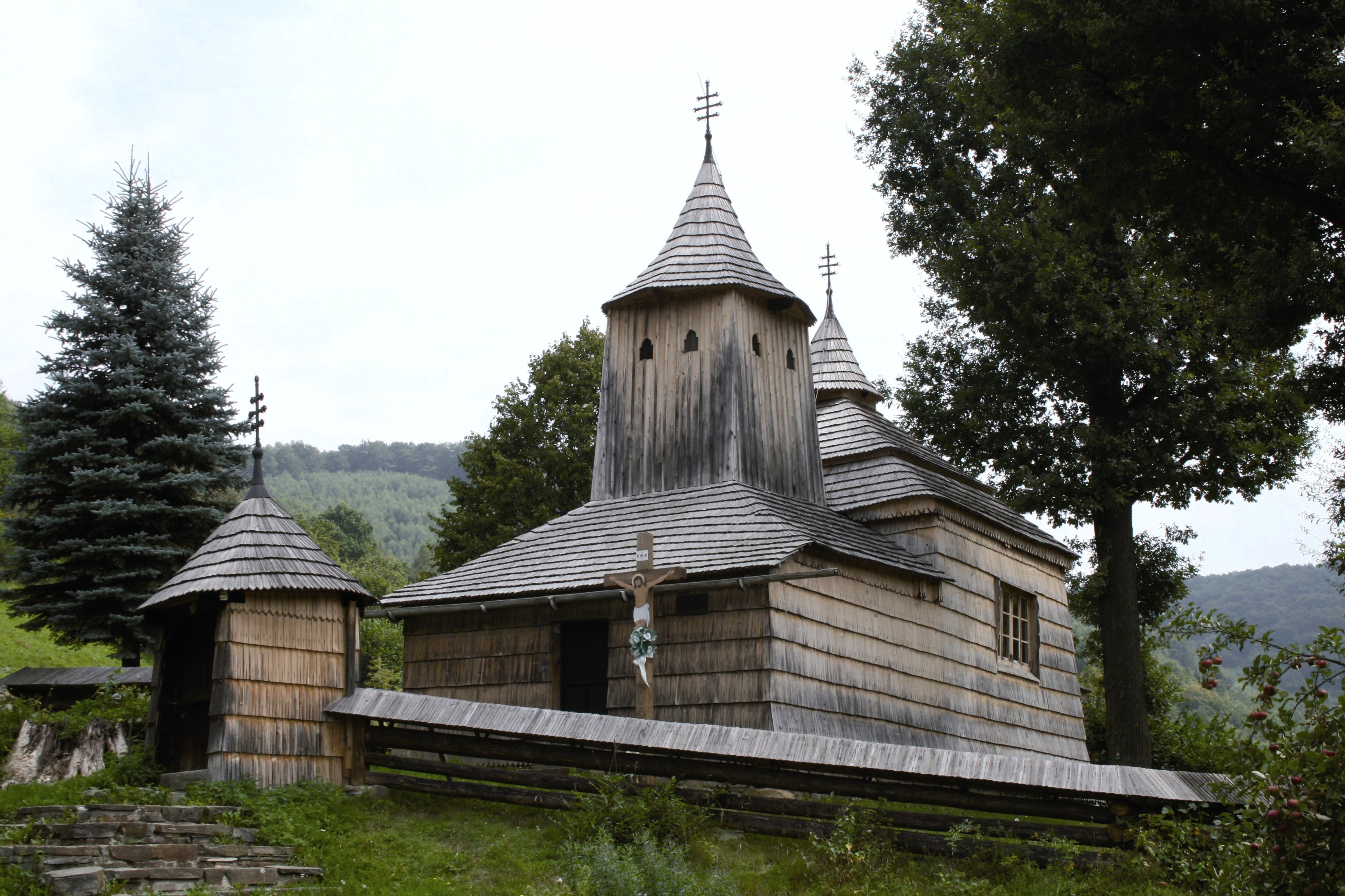 Krajne Cierno, Greek-Catholic Church.